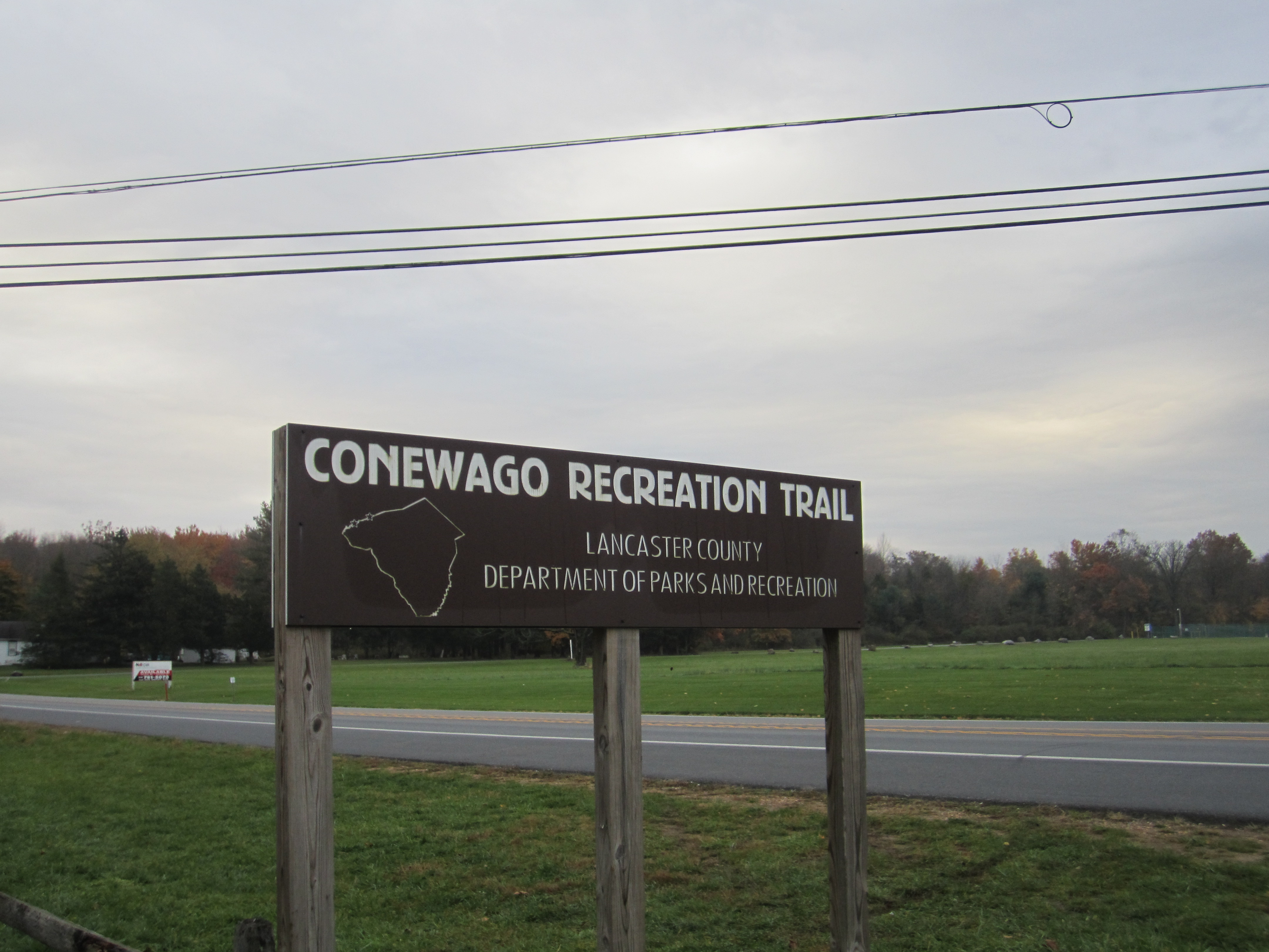 Photo of Conewago Trail Sign